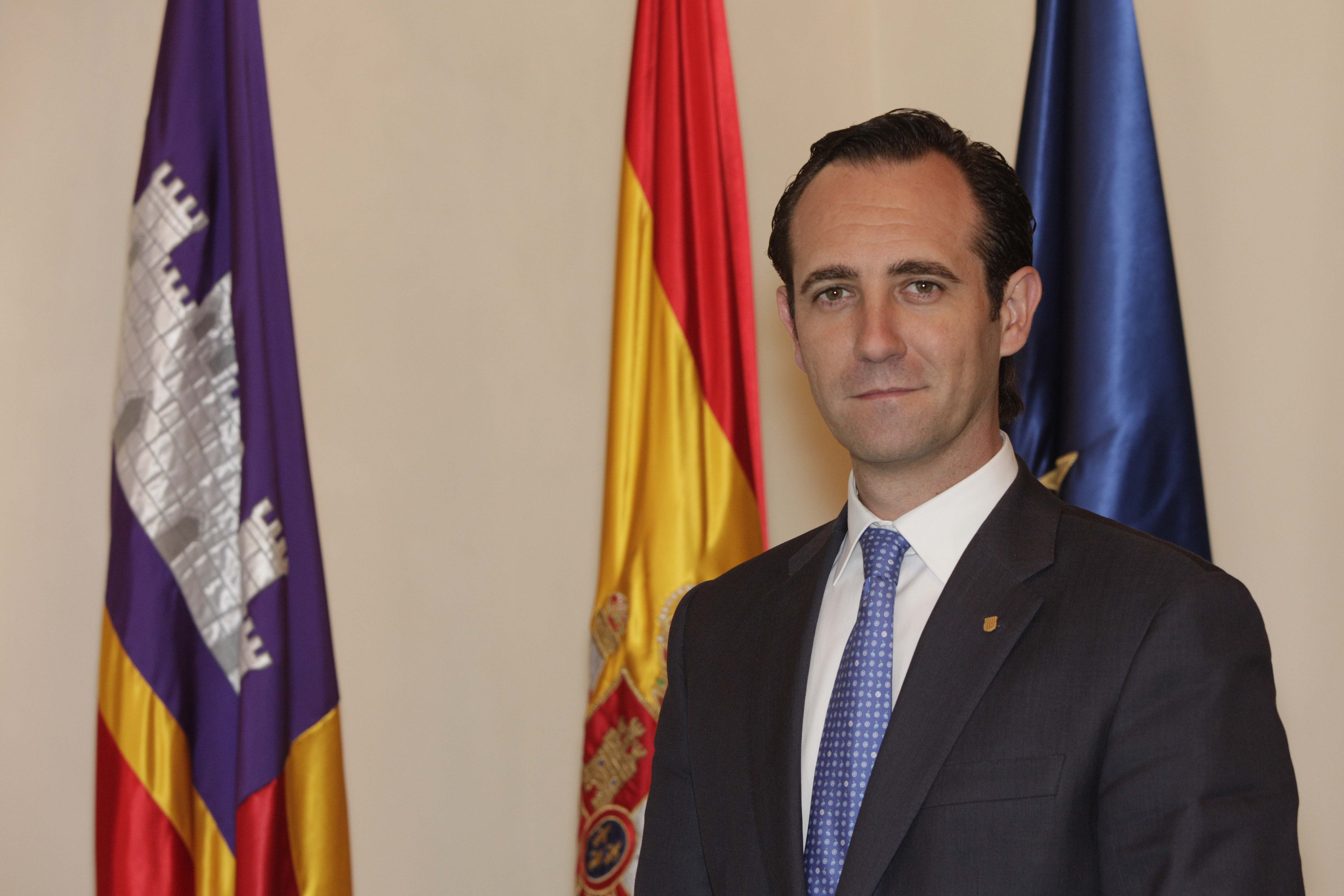 Official portrait dated 10 January 2012 of Mr. José Ramón Bauzá Díaz, Former President of the government of the Autonomous Community of the Balearic Islands, Kingdom of Spain.